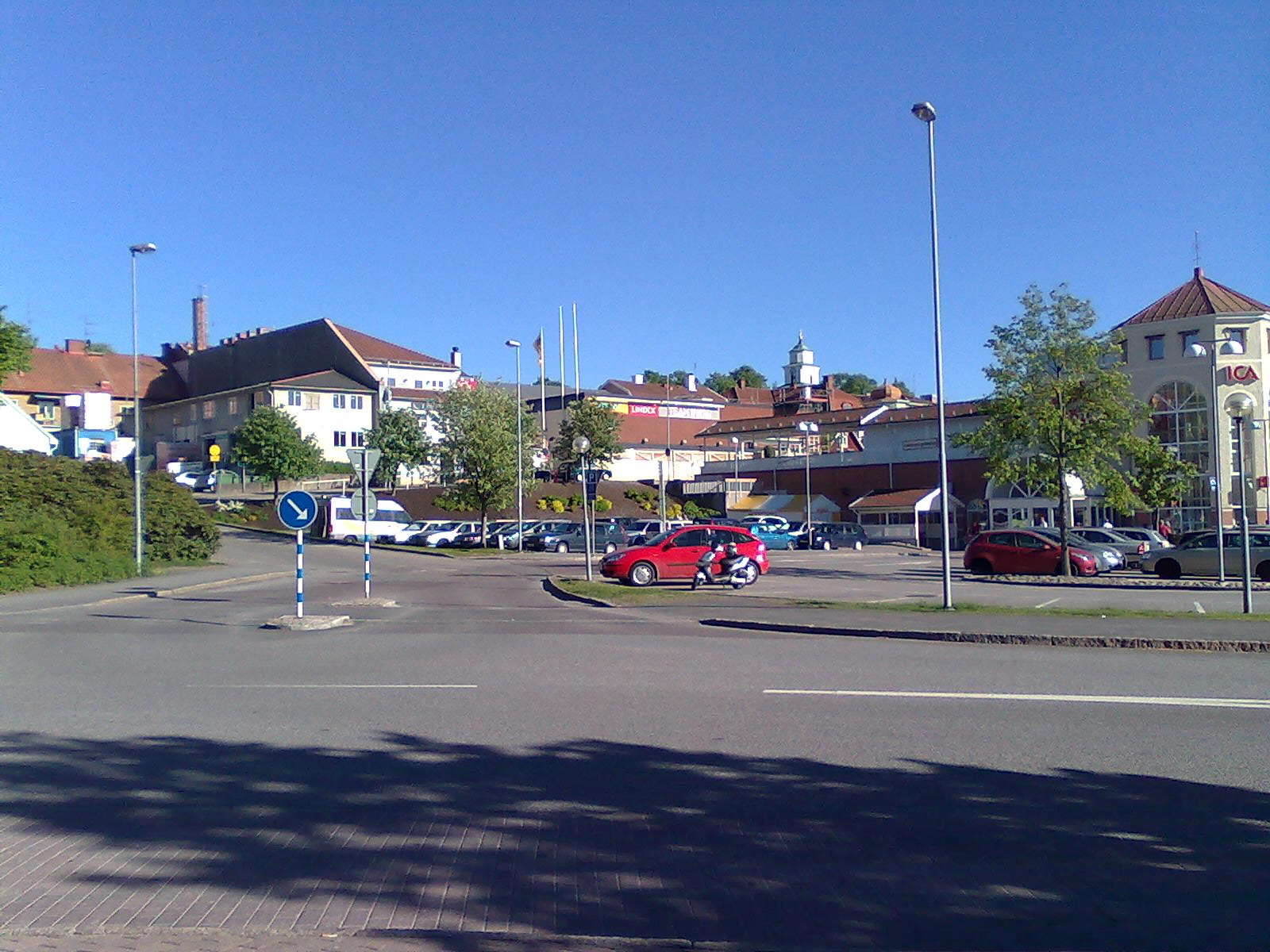 View towards east from Strandgatan in Ulricehamn.